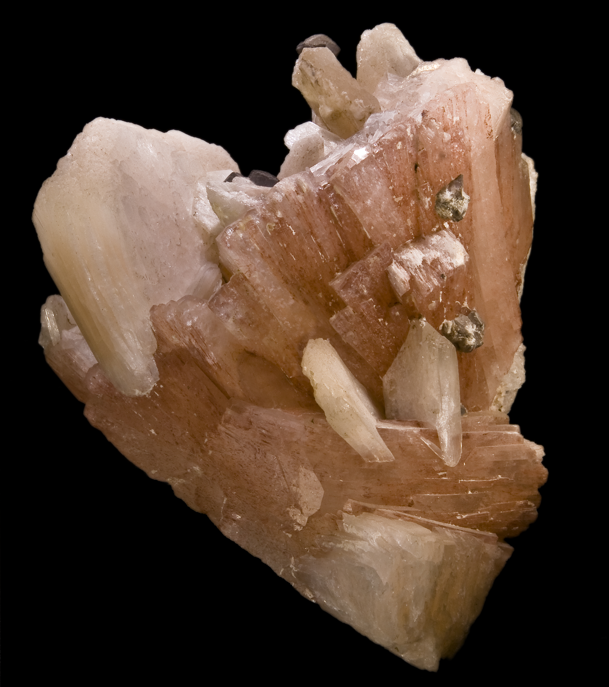 Heulandite Locality : Lonavala Quarry, Lonavale (Lonavala), Pune District (Poonah District), Maharashtra, India Size : (7.5x5.5 Size of individual crystals: 3-5cm)